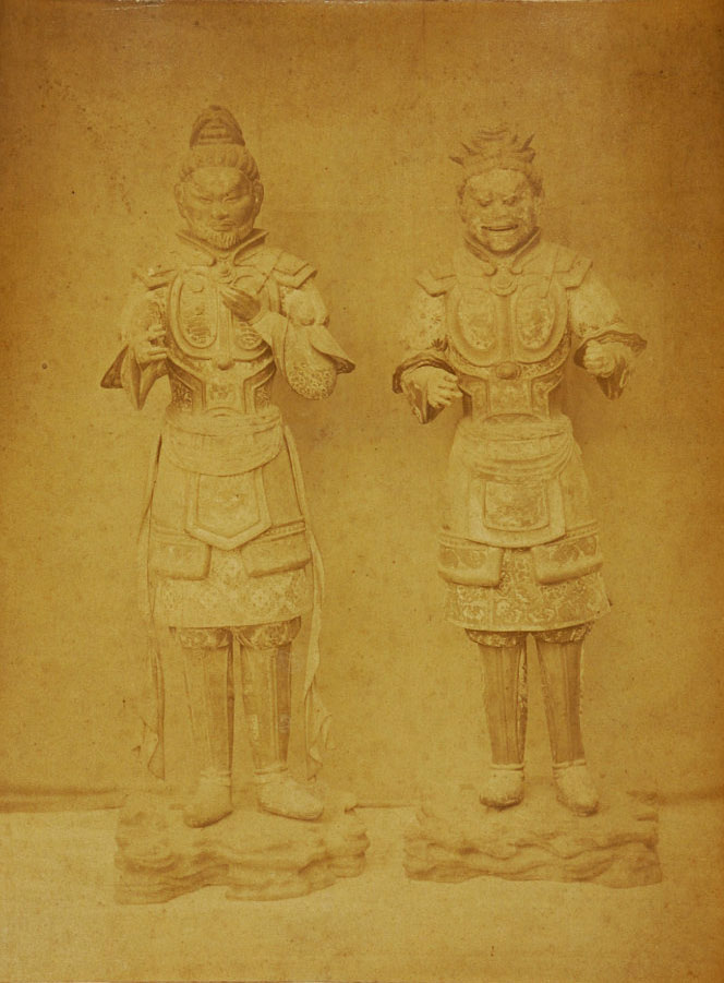 Statues of Tianlong babu